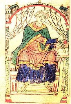 Portrait of Eadmer of Canterbury, Benedictine abbey of Saint Martin, Tournai, circa 1140–50 (